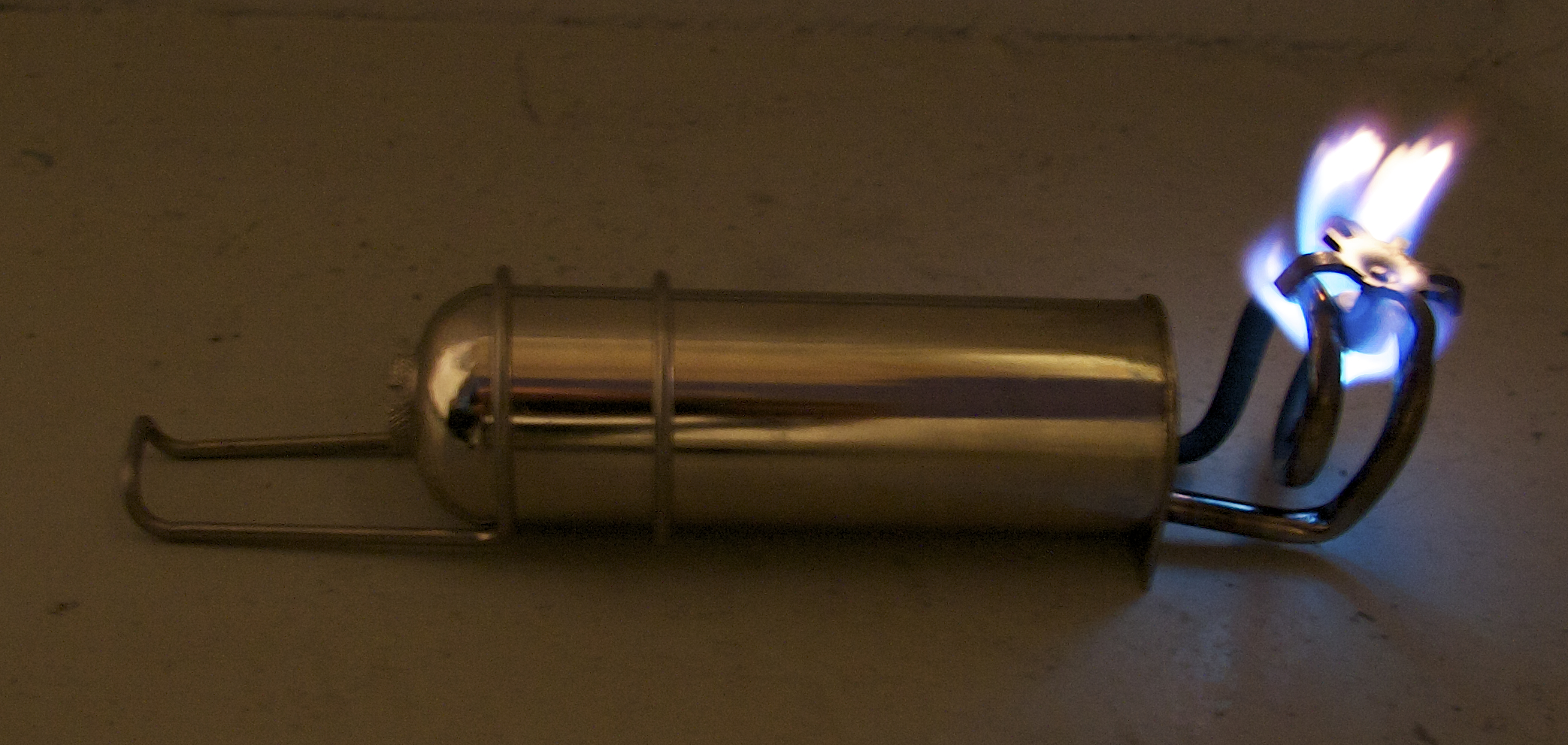 A lit swiss-made Borde Benzinbrenner. Originally invented by Joseph Borde, it is a self-feeding petrol burner. Weighs 255 grams empty, measures 18x4x5 cm (l, w, h).